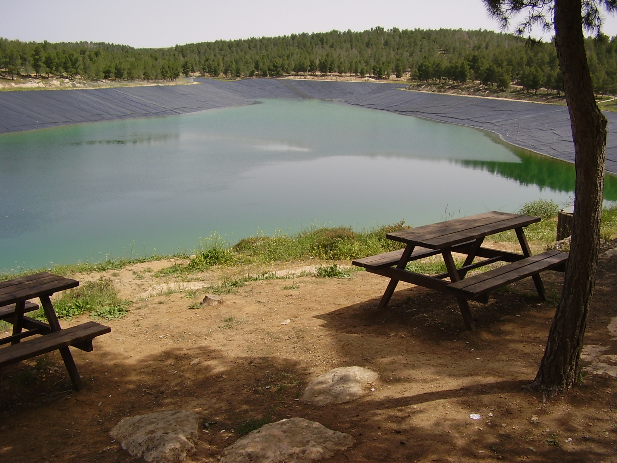 yatir reservoire in yatir forest מאגר יתיר ביער יתיר